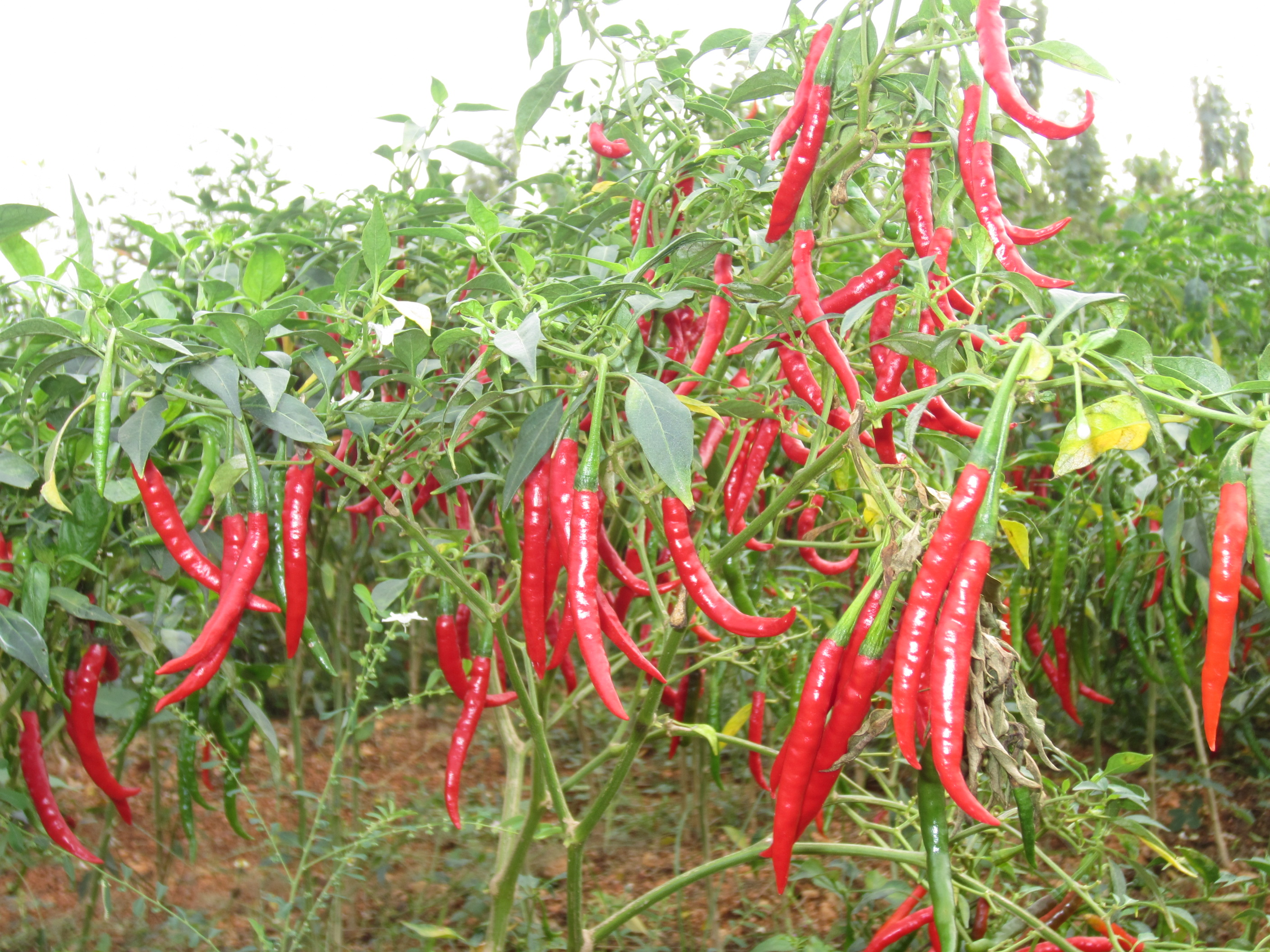 Red Chilli crop